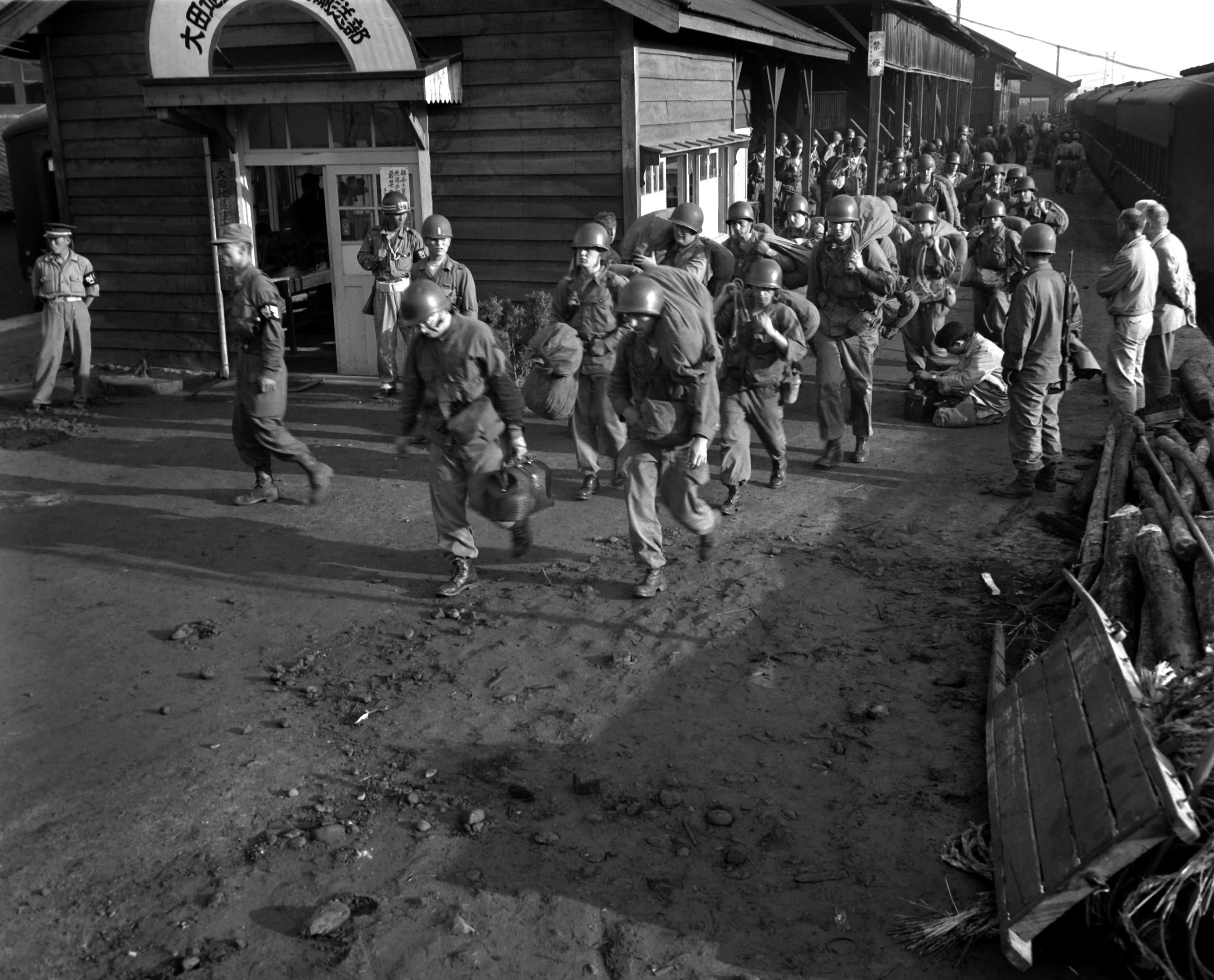 U.S. GROUND TROOPS ARRIVE IN KOREA: The first units of U.S. Army ground forces to arrive debark from trains Taejŏn in South Korea. NARA FILE#: 111-SC-342731